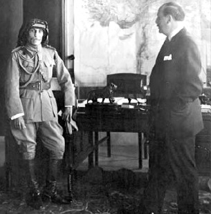 Ramadan al-Shallash (left) surrendering to Henry de Jouvenel (right)